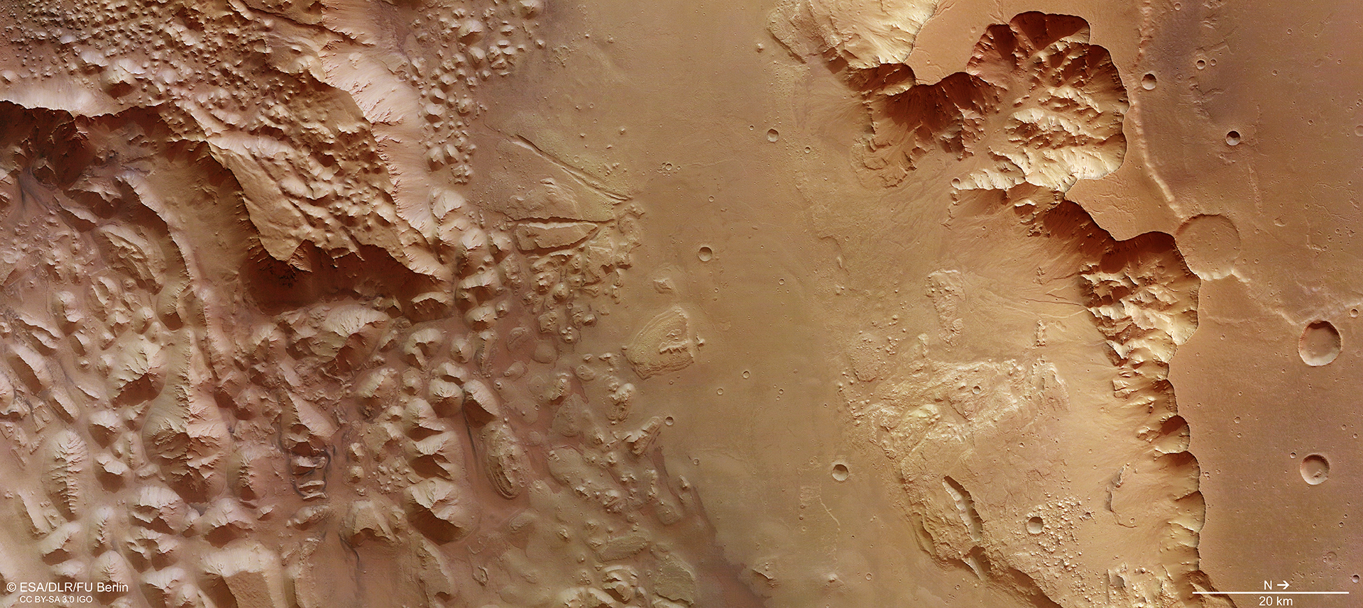 Aurorae Chaos (left) and Ganges Chasma (right) imaged by the HRSC instrument aboard Mars Express.